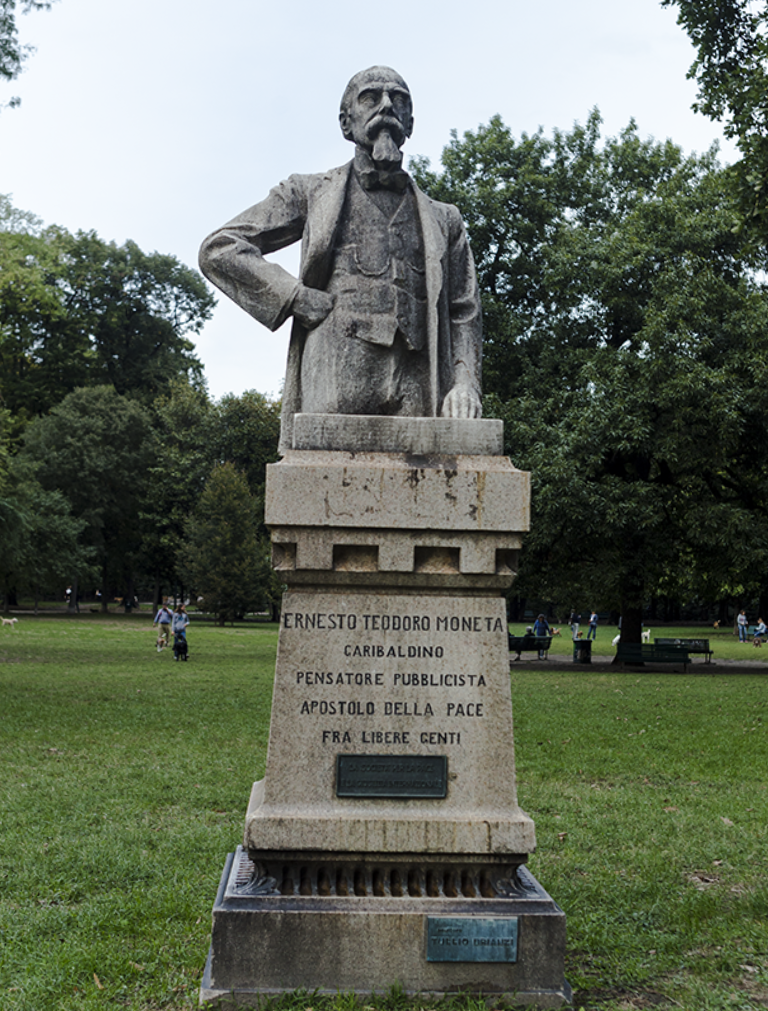 This is a photo of a monument which is part of cultural heritage of Italy.